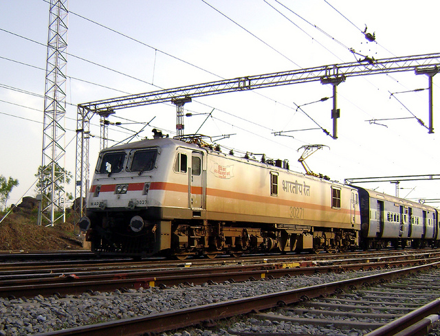 Goutami Express at Moula Ali, Hyderabad